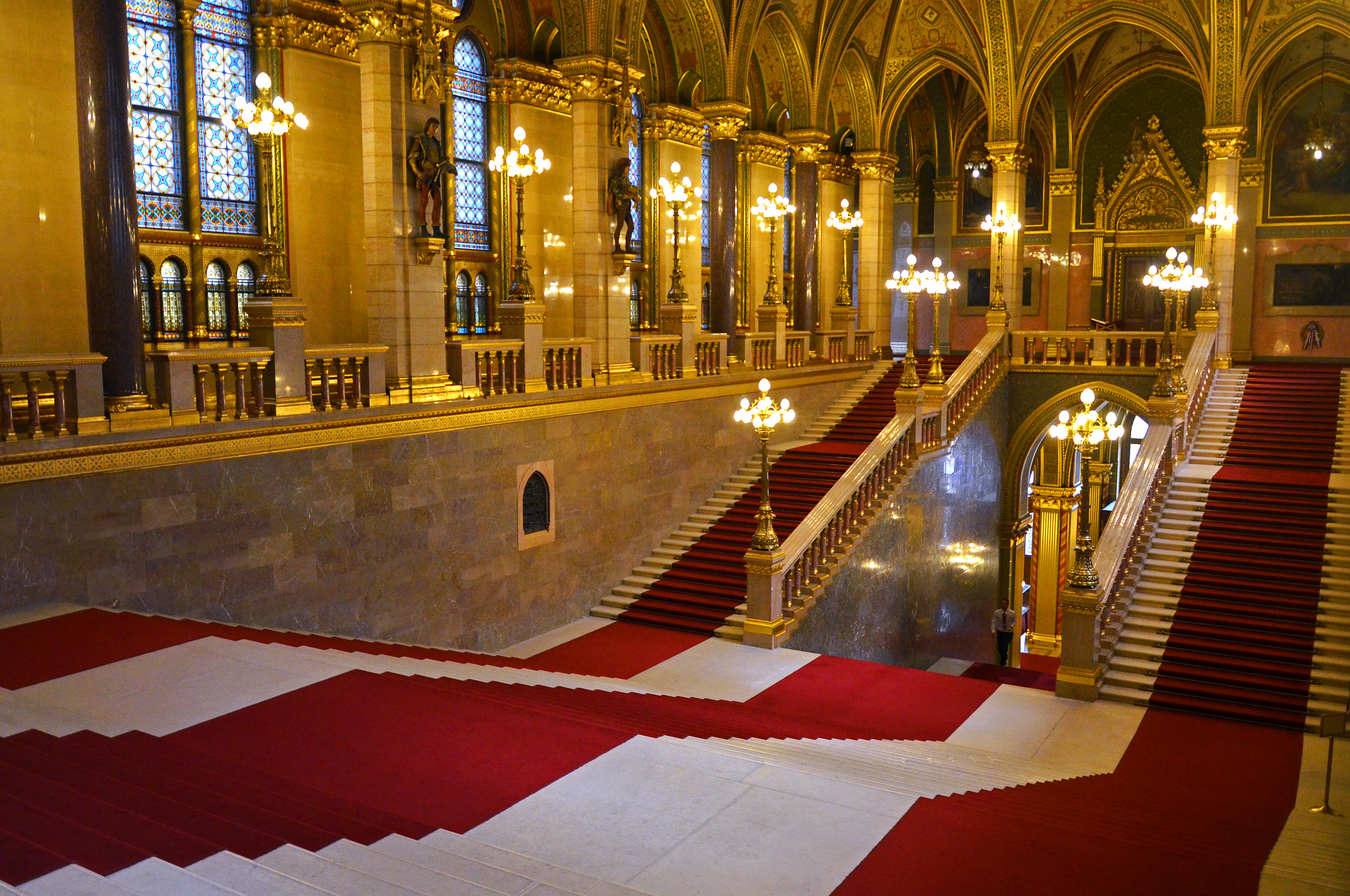 Parliament Building, Budapest, Main Hall